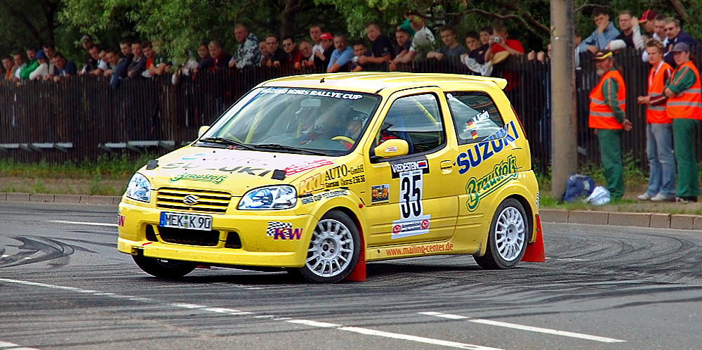 This image shows a Suzuki Ignis Sport. The driver is Veit König, the co-driver is Michael Schwendy. This photo has been taken during the Saxony rally racing 2005 in Zwickau (Germany).